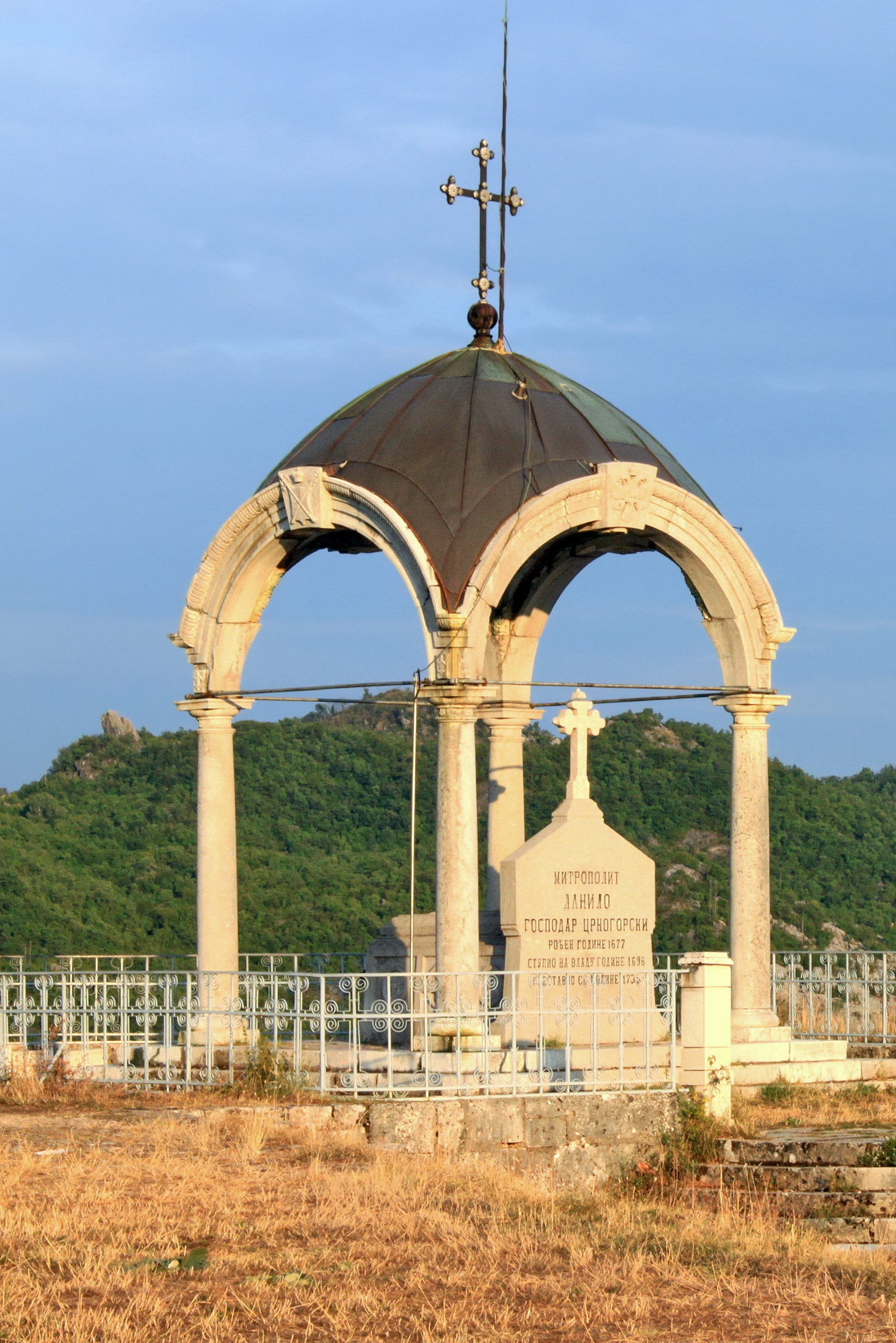 Mausoleum of Prince-Bishop Danilo I - the founder the Petrović-Njegoš dynasty. Cetinje, Montenegro.